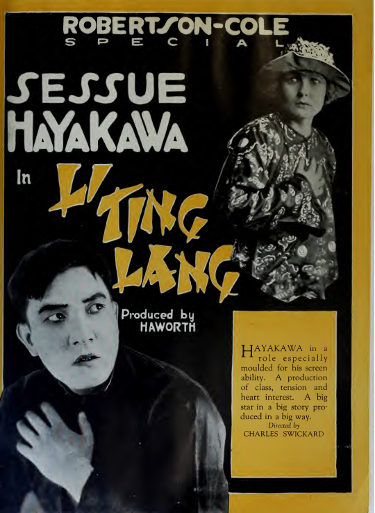 Advertisement with Sessue Hayakawa in the film Li Ting Lang (1920) directed by Charles Swickard.